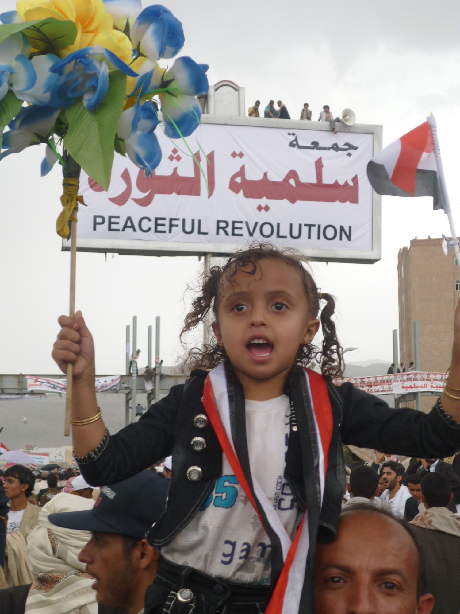 yemeni girl holding yemeni flag and flowers in sanaa 60 street in 27 may 2012